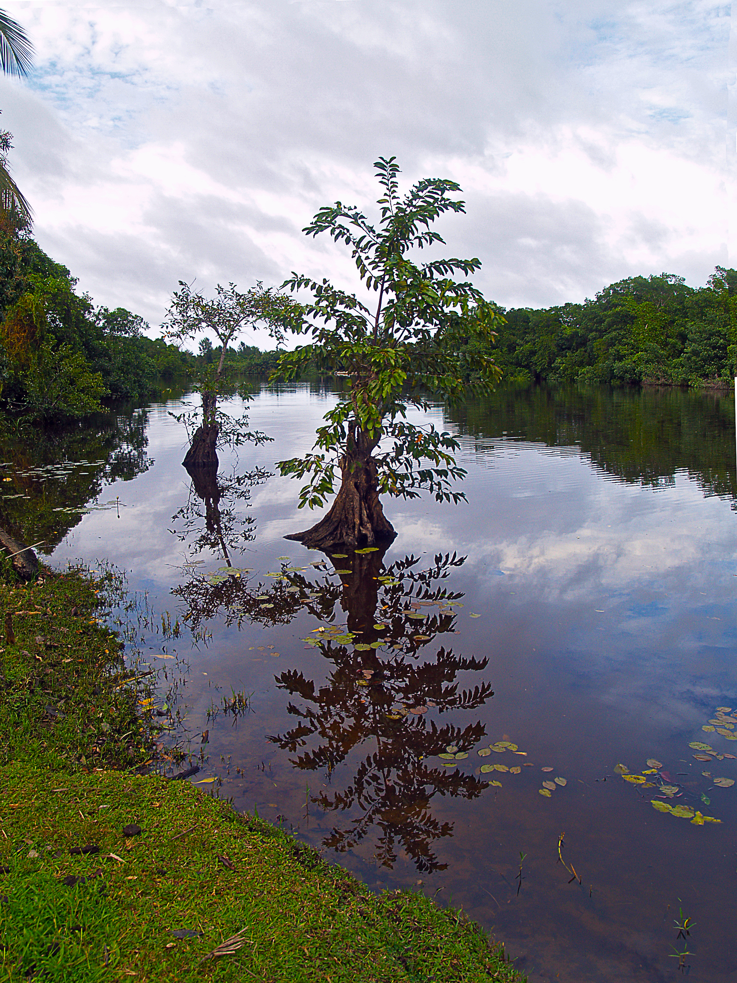 Punta Izopo National Park. A few Km. from Tela, Atlántida in Honduras, Punta Izopo National Park main attraction is the Rio Platano, where you can kayak through a maze of mangroves admiring an impressive landscape and plenty of aquatic birds, howler, spider and cappuccino monkeys and some crocodiles. An exciting way of spending half day, and then enjoy a typical Garifuna lunch at the community of Triunfo de La Cruz.